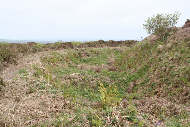 Ditch and rampart at Caer Bran hill fort This impressive 240 feet diameter hill fort is much overgrown with gorse and bracken but they have been cleared on the northern side to expose clearly these defensive structures.